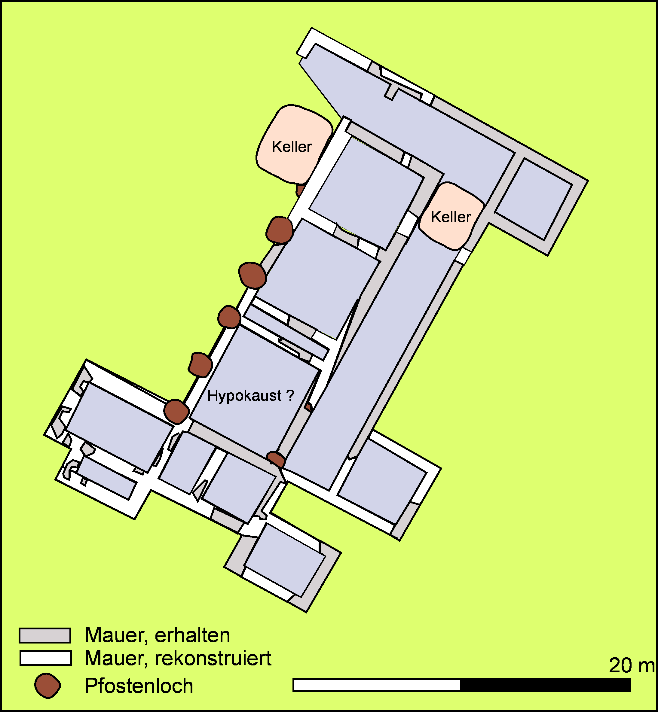 Plan of the Romn villa at Keston (South London)